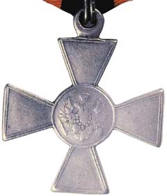 Cross of St. George 4st for-nonchristian